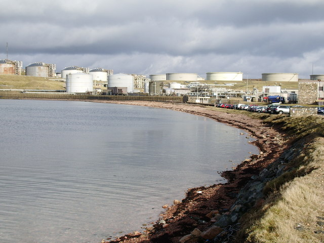 Sullom Voe Oil Terminal, Shetland. Photo taken looking northwest towards part of the oil terminal complex